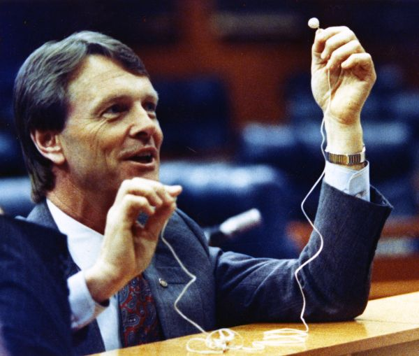 Florida legislative representative Frank Messersmith